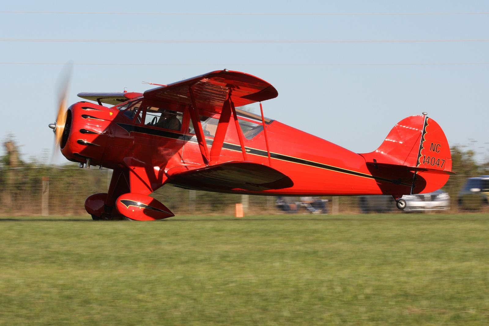 1934 Waco YKC C/N 3966